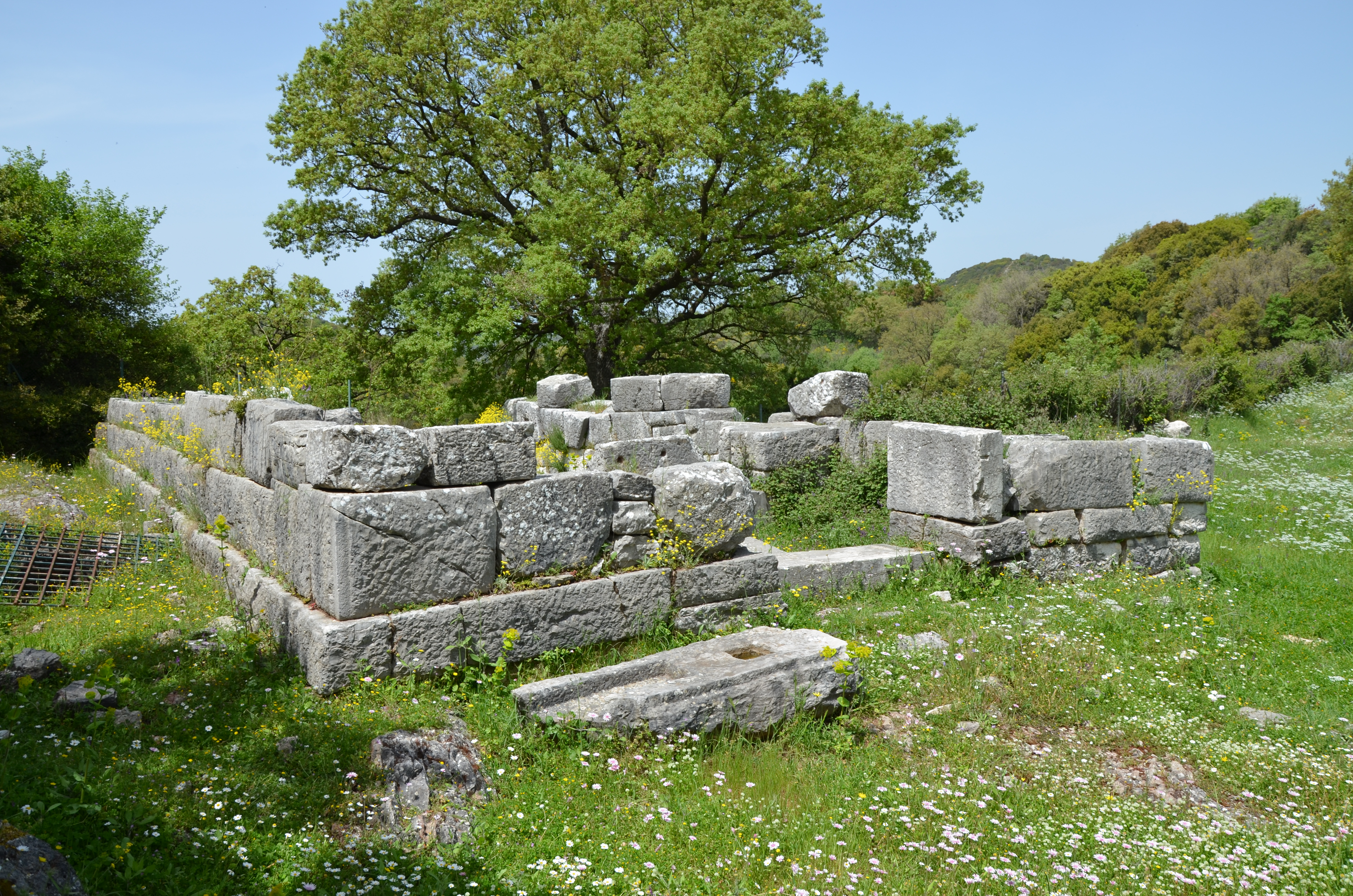 Temple of Athena, Arkadia, Phigaleia, Greece